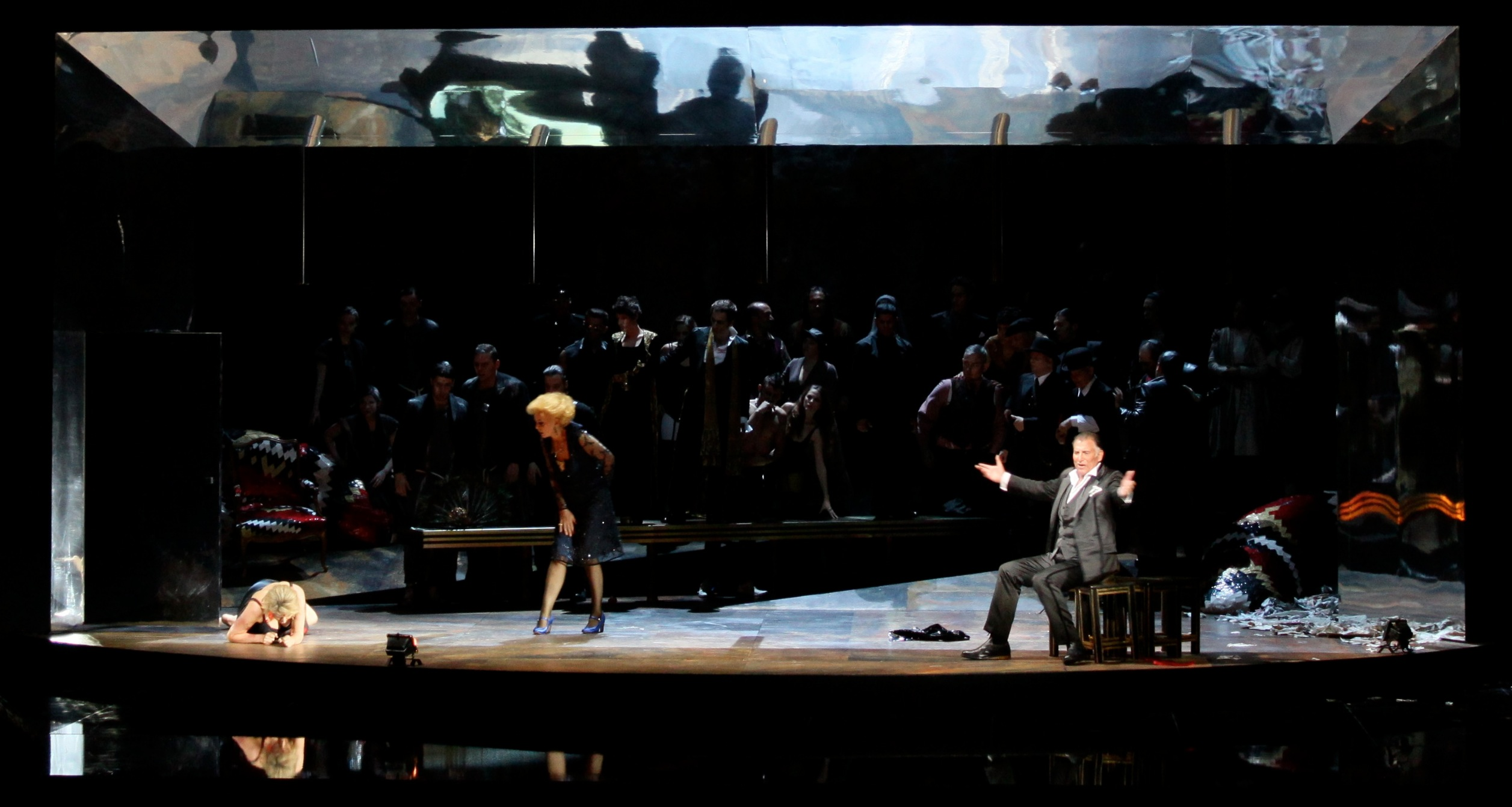 Scene from Francisco Negrin's production of Richard Strauss' 1905 opera Salome. Palau de les Arts in Valencia, 2010. Photo by Bruno Poet